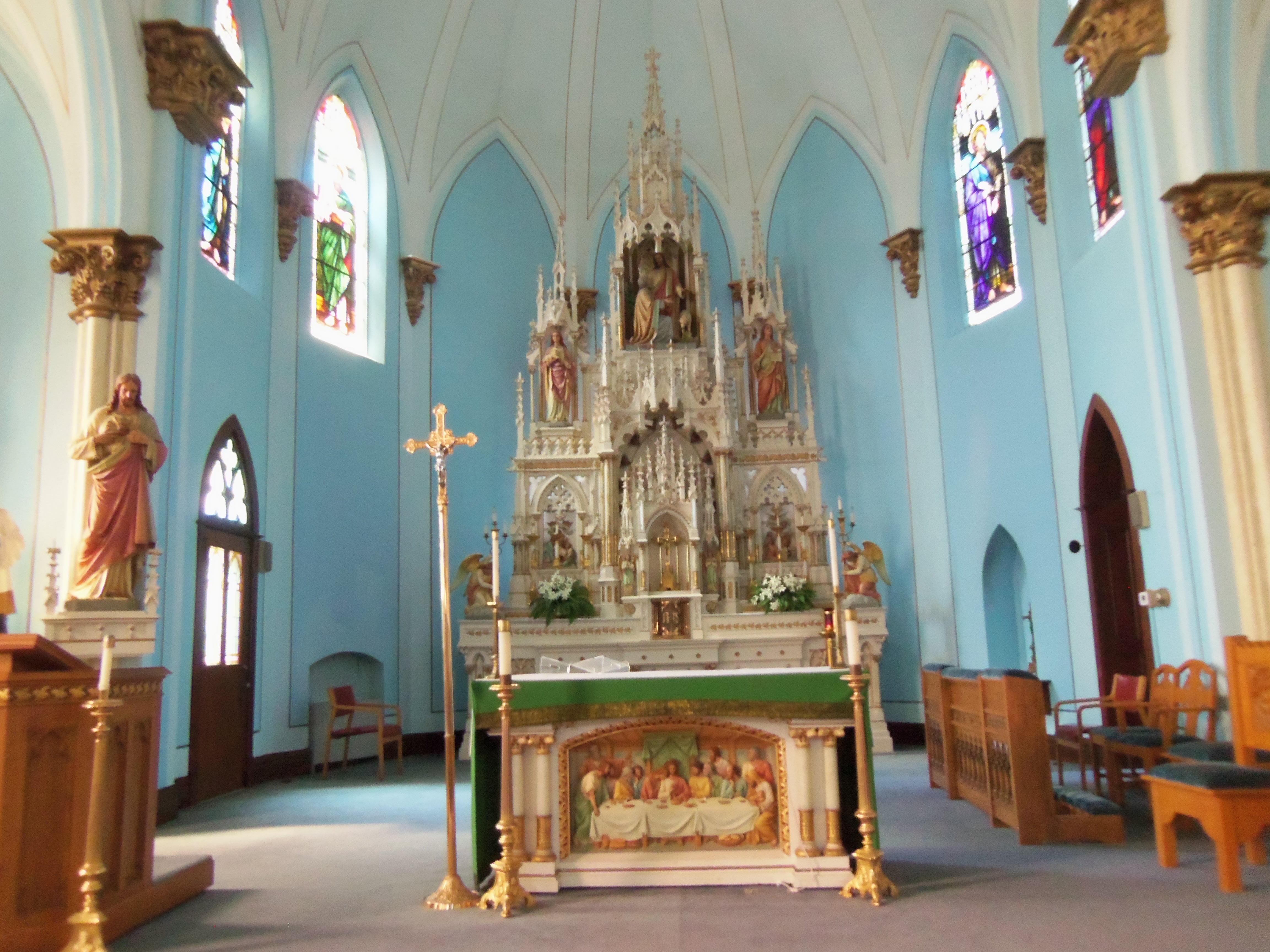 The interior Saint Mary's Church in Riverside, Iowa. It is a part of a historic district on the National Register of Historic Places that includes all the parish buildings.